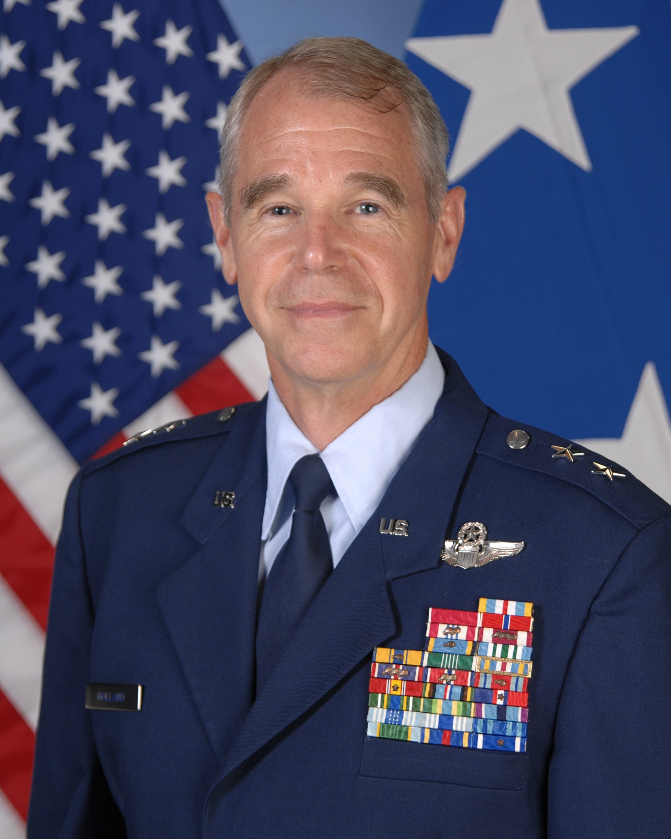 Major General William L. Holland